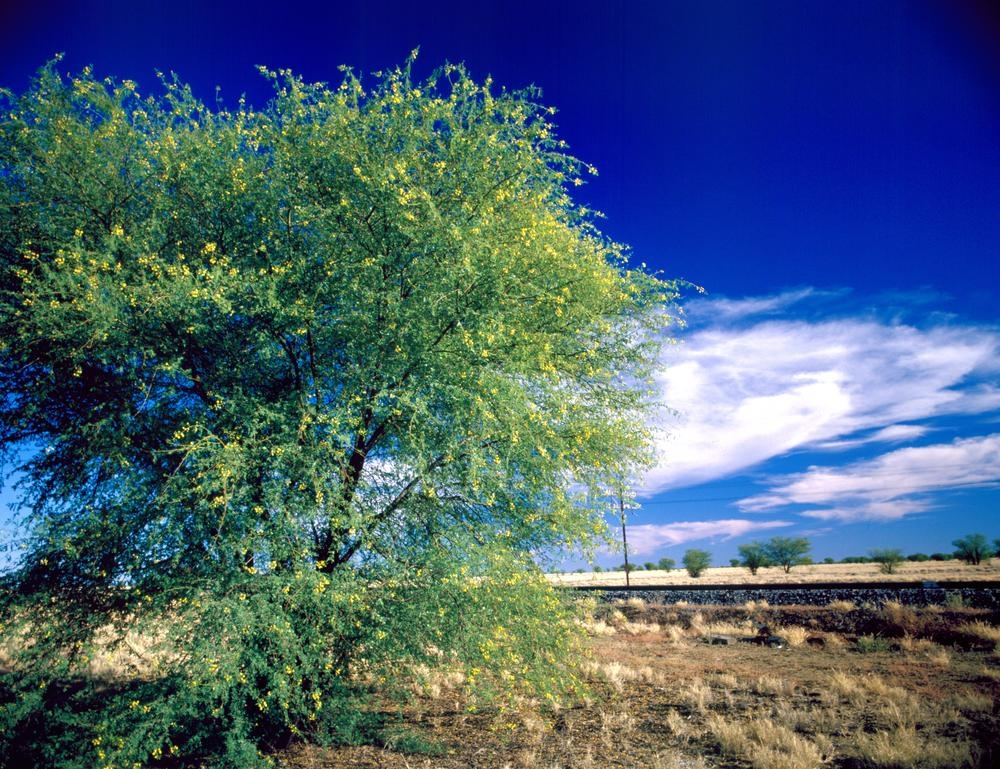 Wattle tree spotted with delicate yellow flowers near Richmond, Queensland, 1985. The Great Northern railway line is visible.